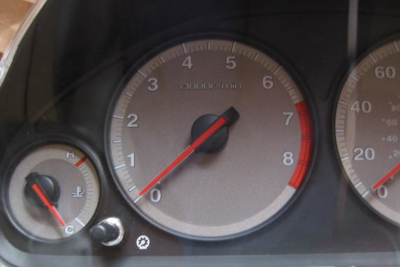 Picture is detail of 2001 Honda Civic instrument cluster showing tachometer. Shows example of a nominal 250 degree sweep indicator.